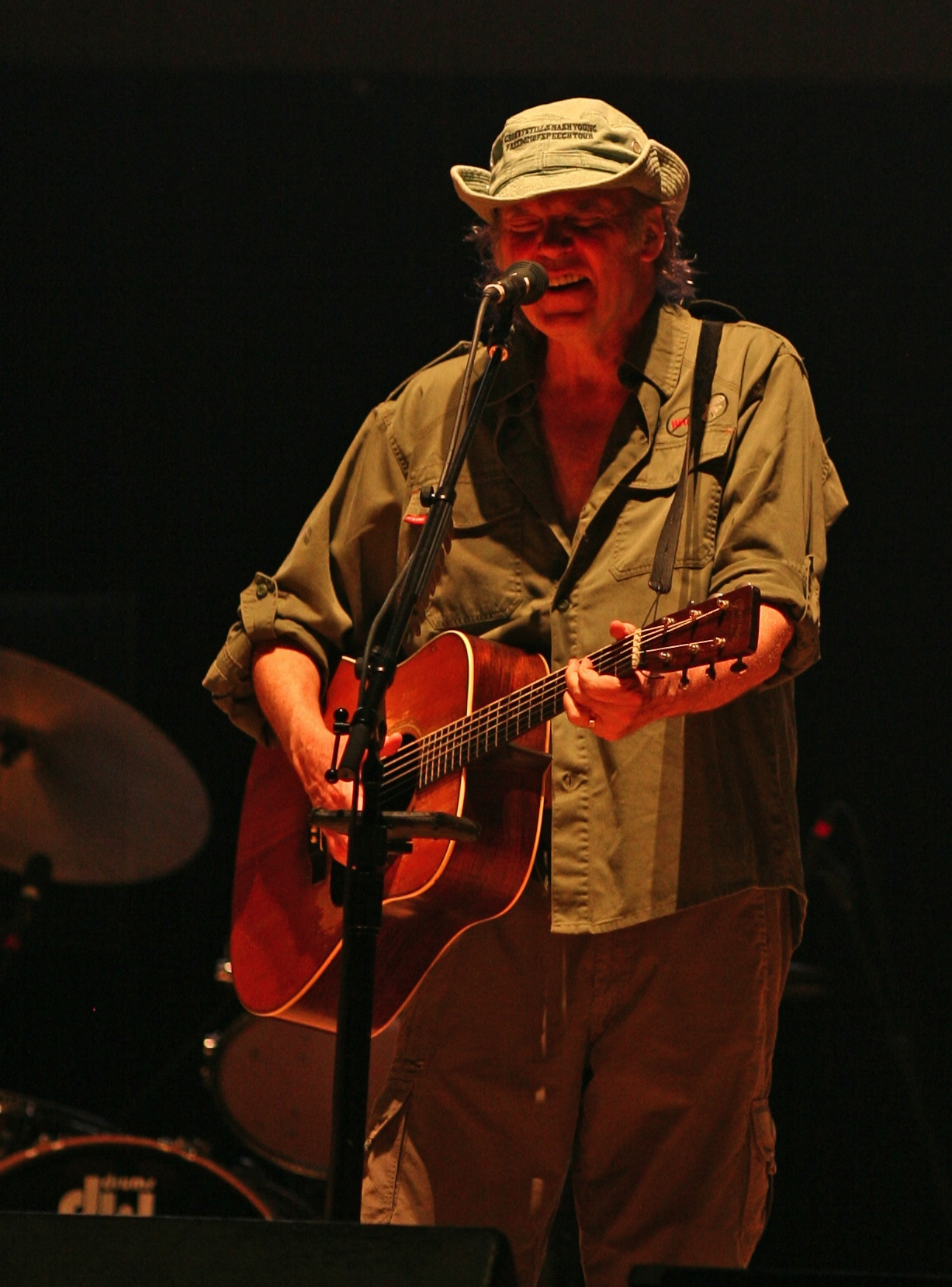 Neil Young, in concert with Crosby, Stills, Nash and Young touring in 2006